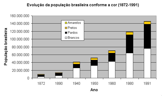 Evolution of the Brazilian population according skin color from 1872 to 1991